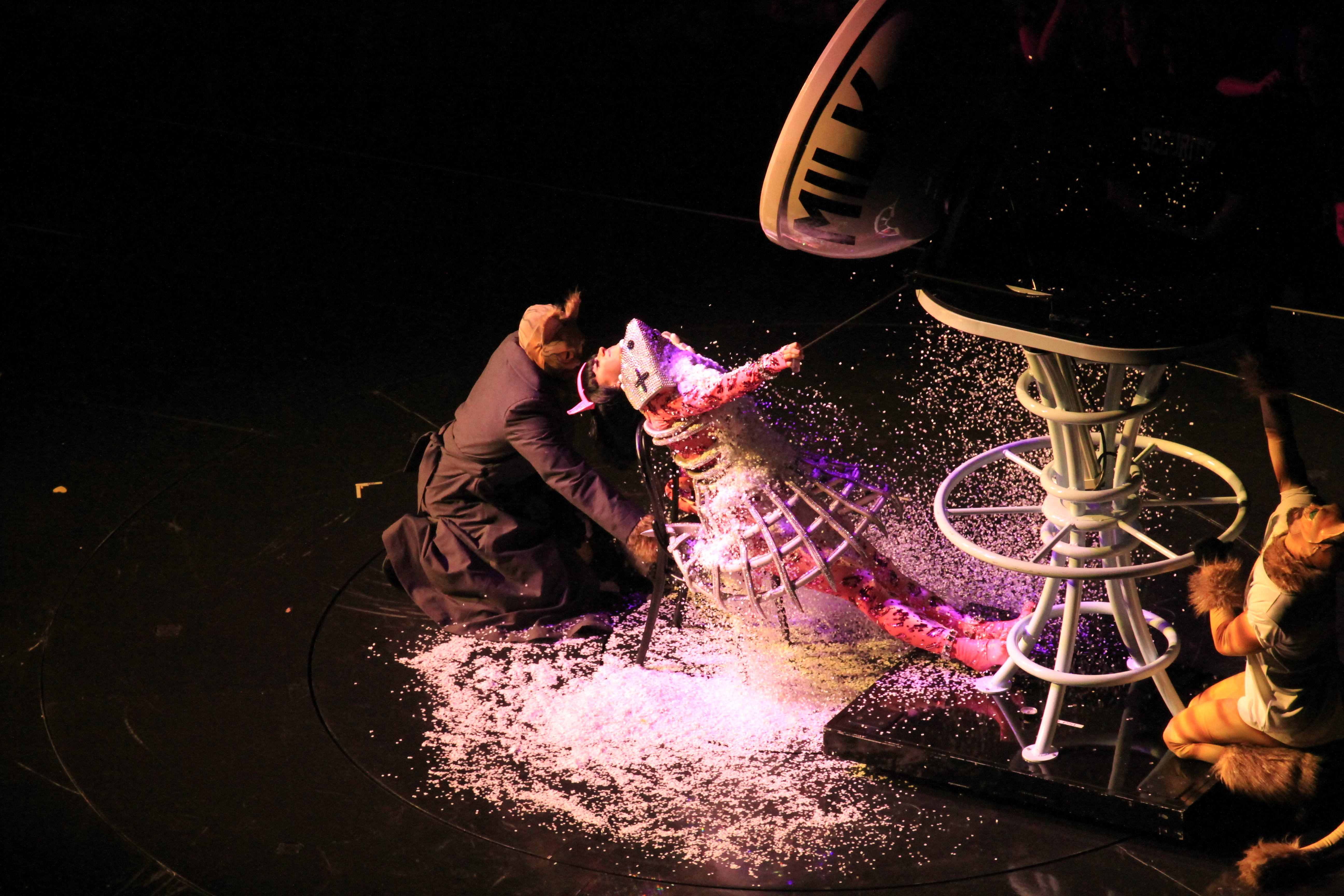 Katy Perry performing at Prudential Center in Newark in July 12, 2014.